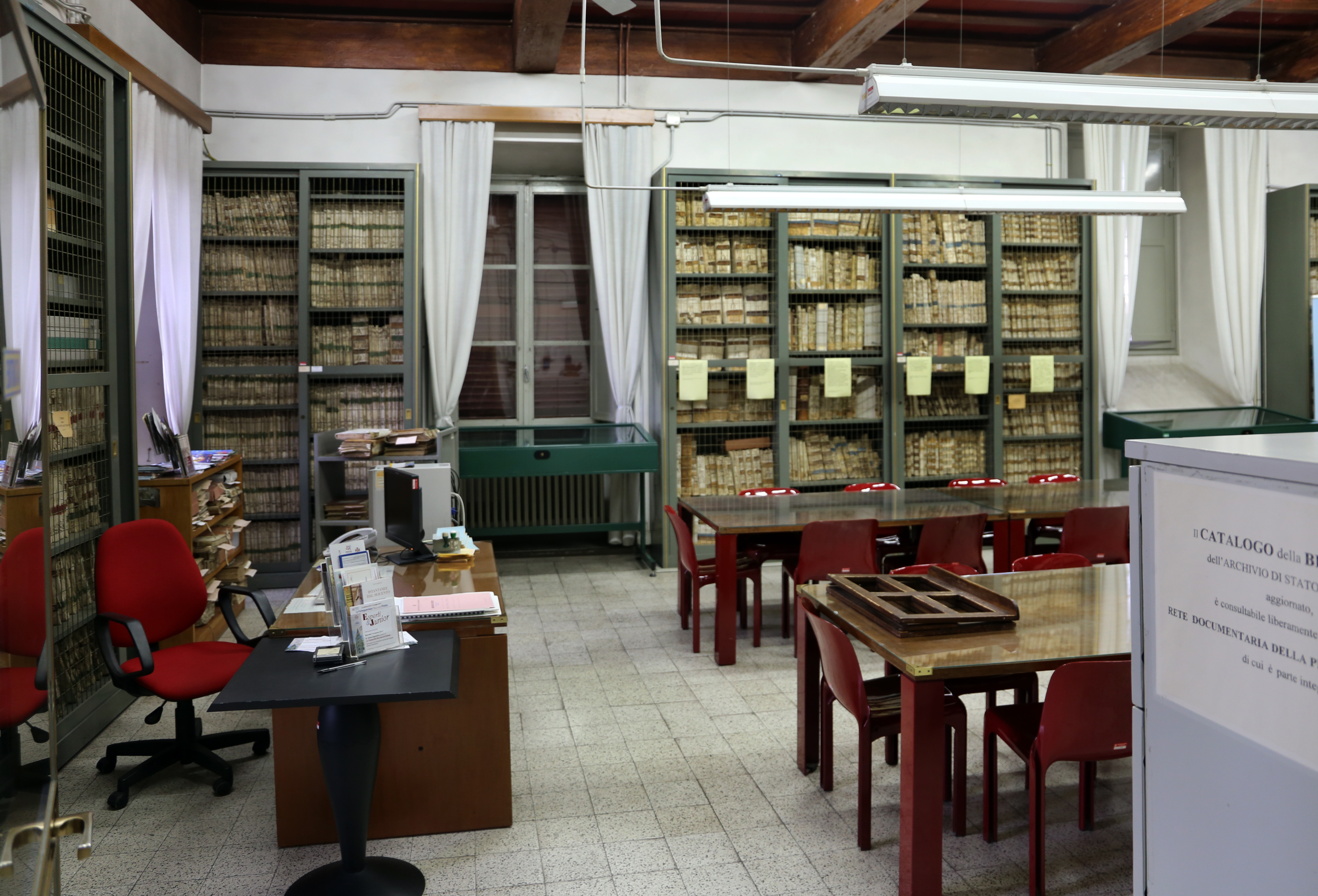 Pistoia, miscellany